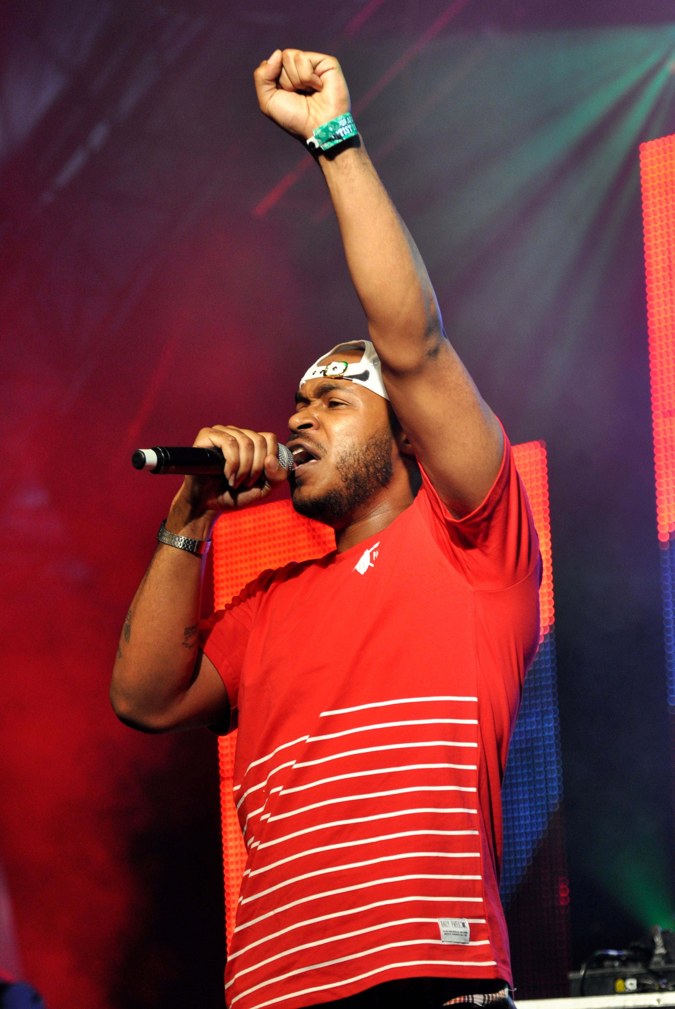 Rapper Adje at Paaspop 2014